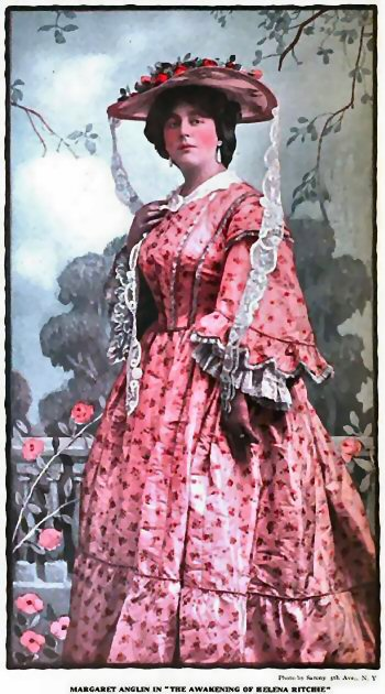 Margaret Anglin (1876-1958) in "The Awakening of Helena Ritchie" ca. 1909